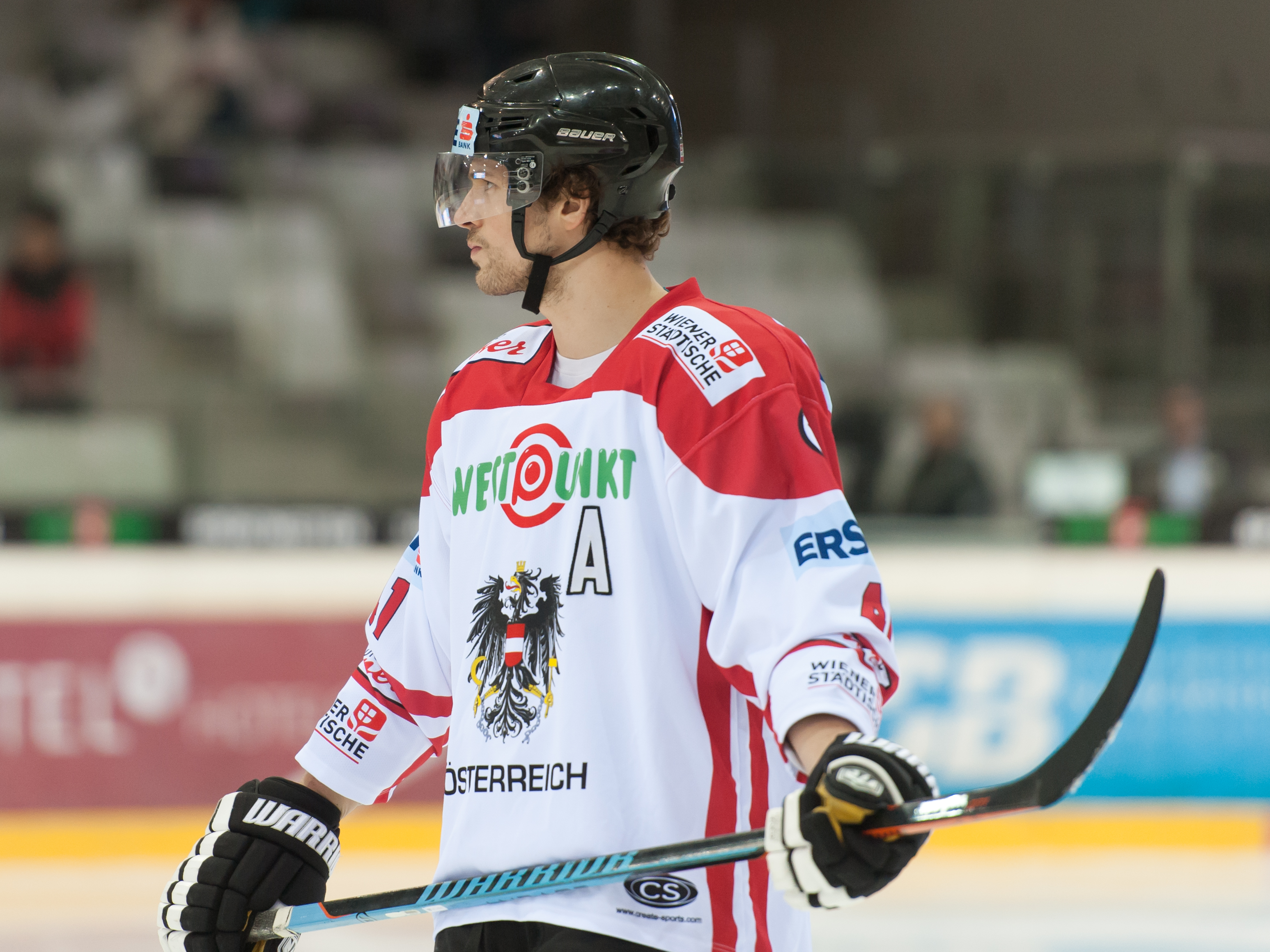 Euro Ice Hockey Challenge Vienna, February 7, 2015, Austria vs. Slovakia